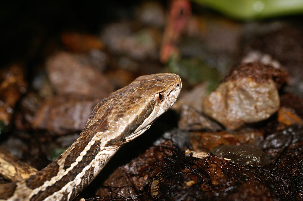 Cerrophidion godmani